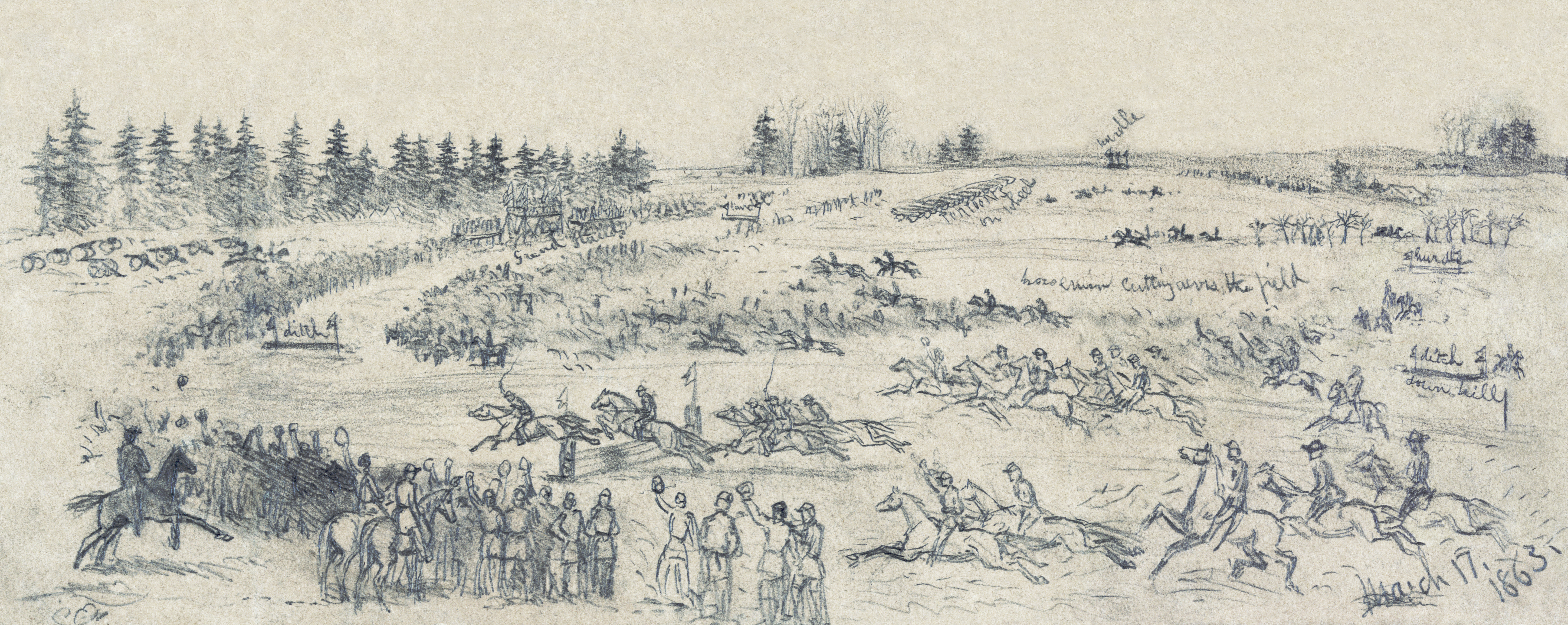 Saint Patrick's Day celebration, Army of the Potomac, American Civil War. Irish Brigade holds a steeplechase race.